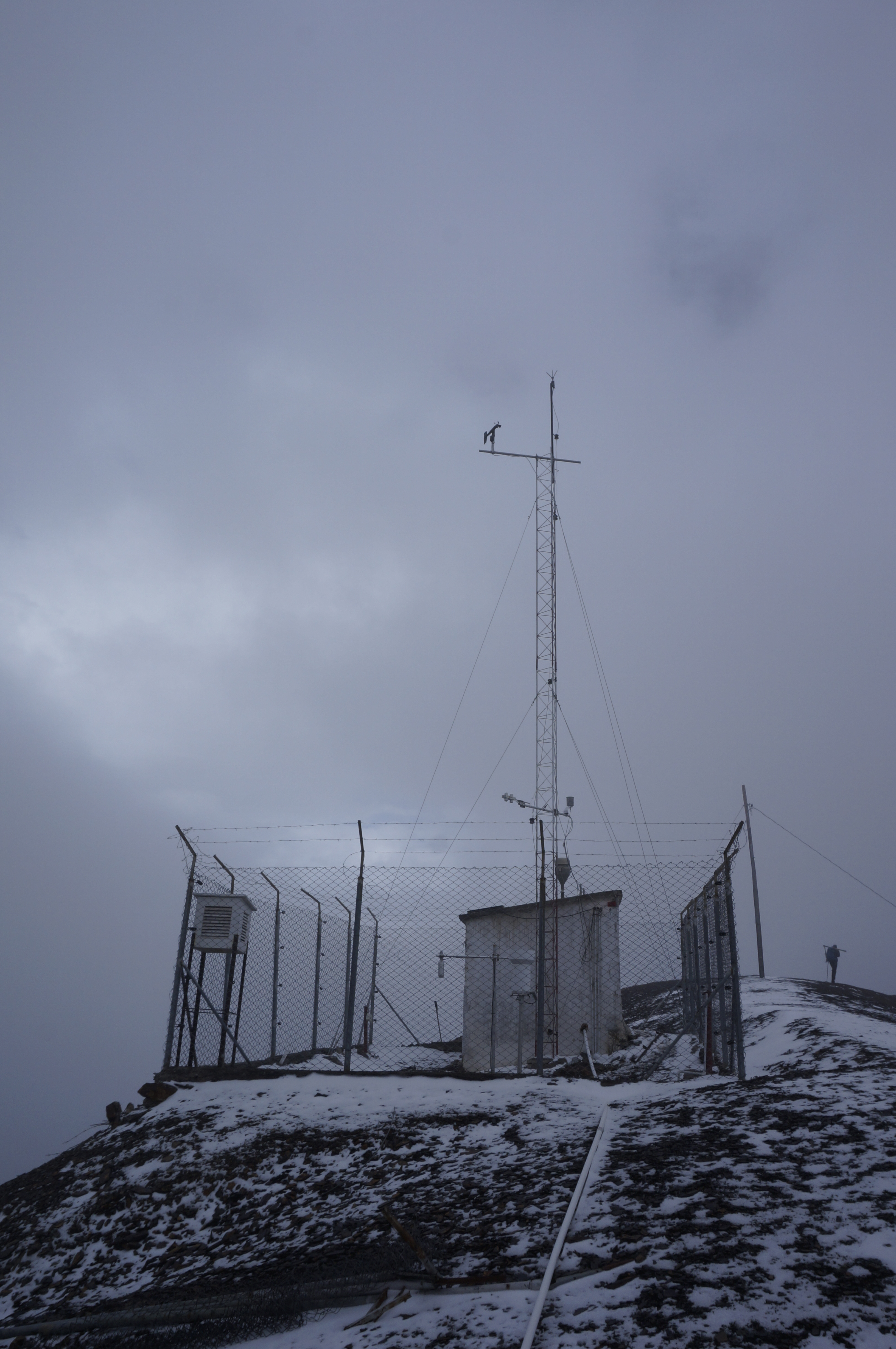 Automatic weather station located in the northwestern ridge of Mount Chacaltaya, Bolivia. It is one of the highest of the country, located at 5380 masl. The station belongs to the national met-office (SENAMHI) but it is maintained by the local public university (UMSA).